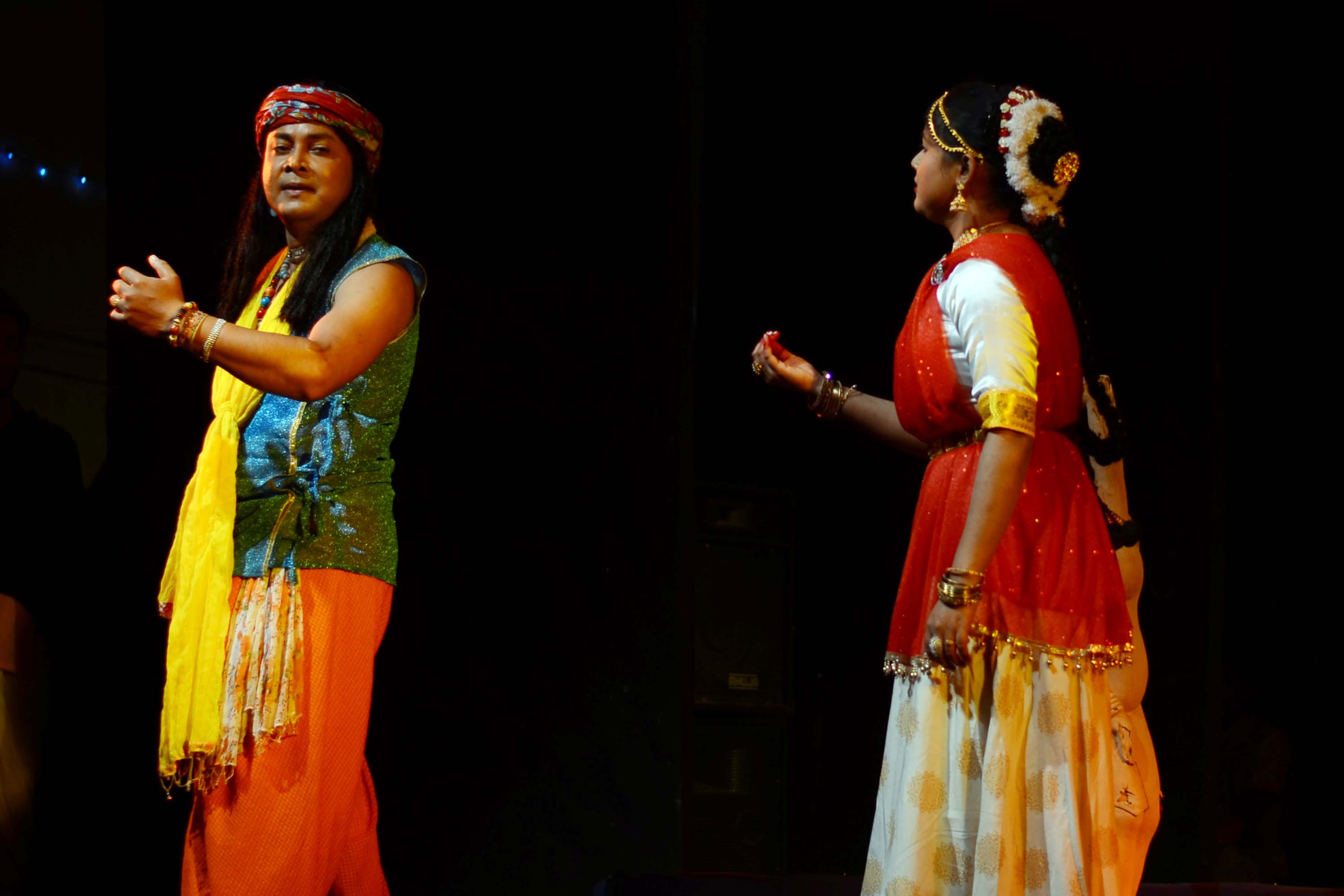 Actors of Abinaswar Gosthi performs the play"Surjya Mandirot Surjyasta" directed by Dipok Borah